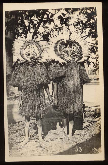 As file